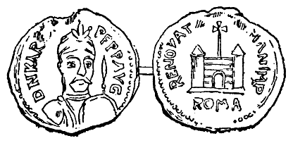 Seal of lead with the image of Charlemagne, made for his coronation